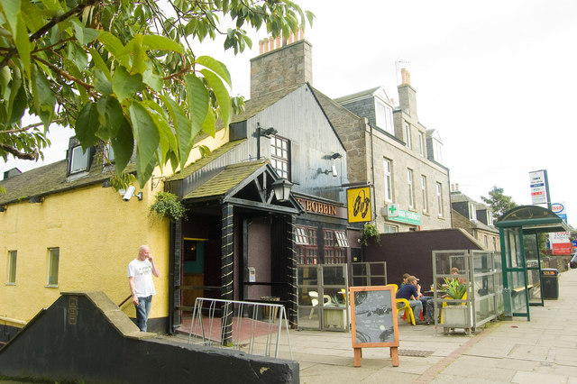 The Bobbin A favourite student pub.